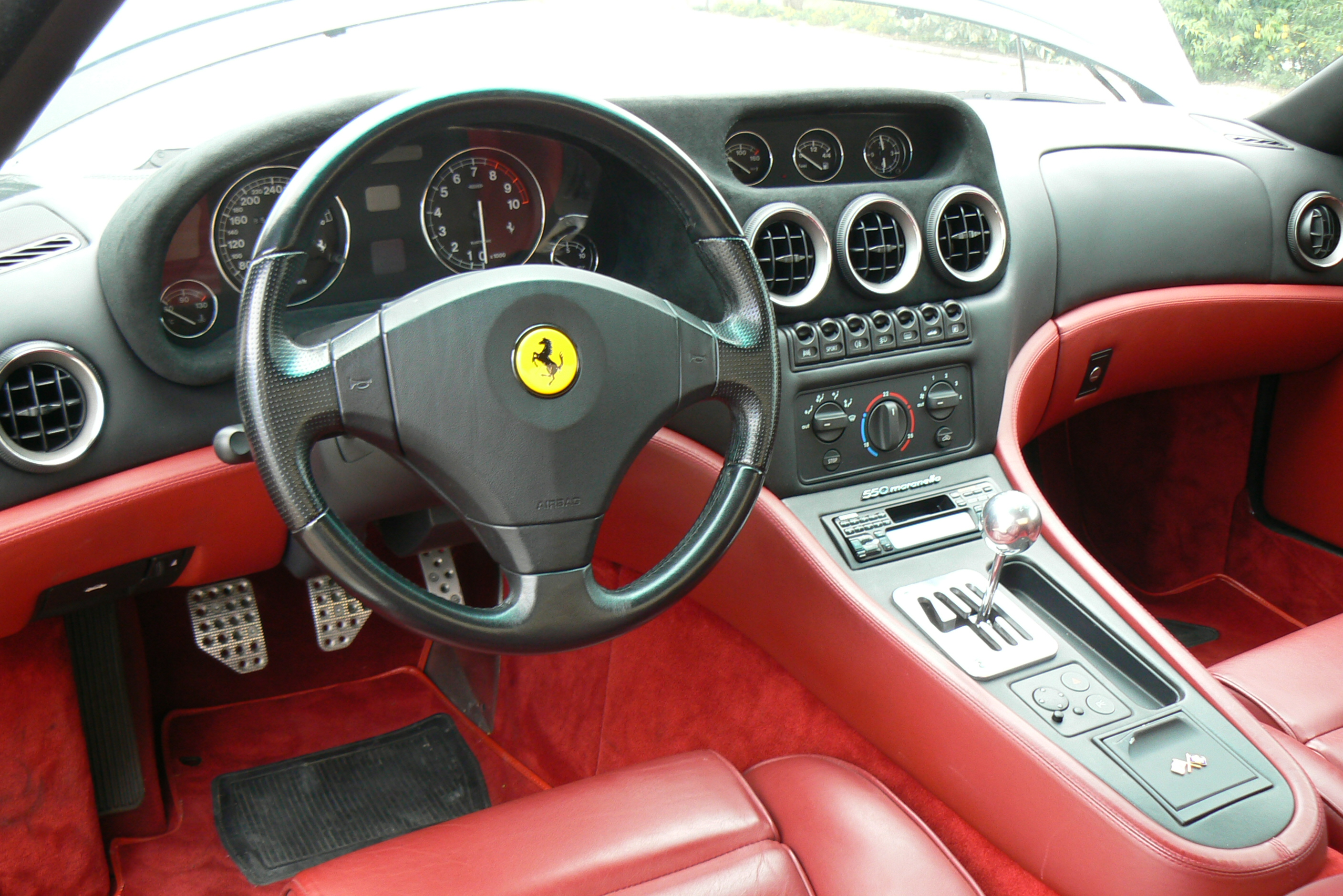 Ferrari 550 maranello - interior left view